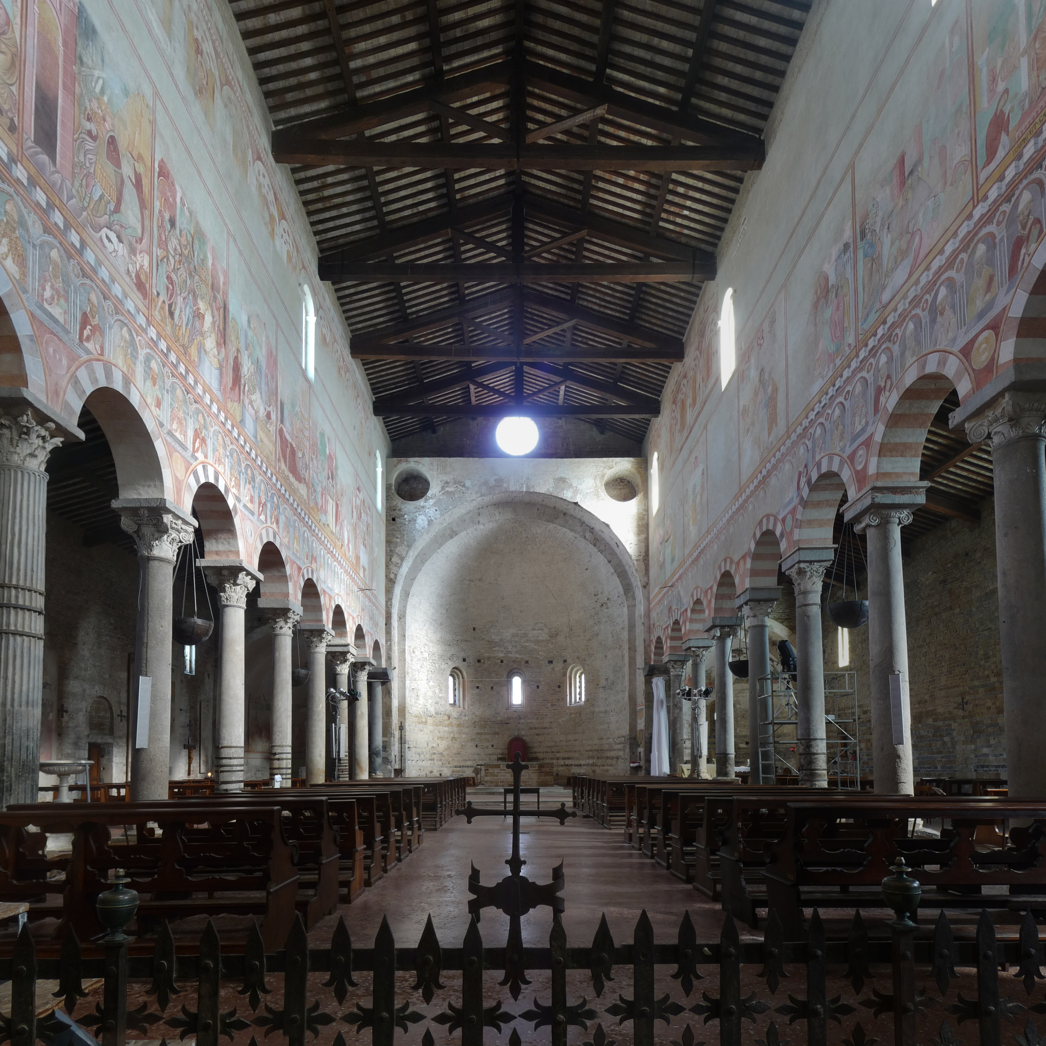 Basilica di San Pietro Apostolo, San Piero a Grado, Pisa, Tuscany, Italy